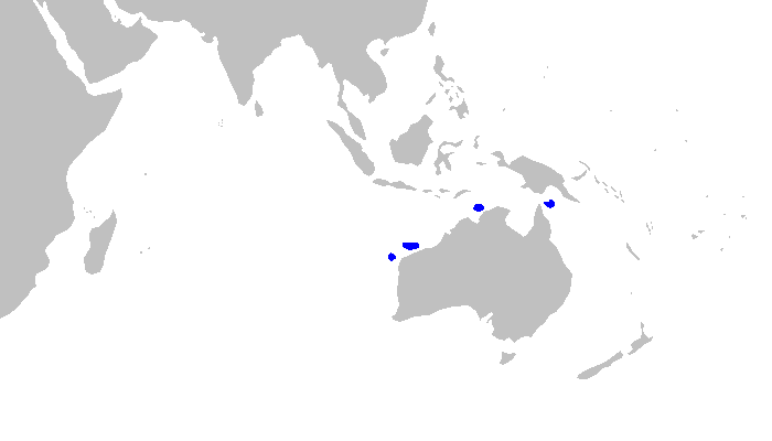 Distribution map for Galeus gracilis